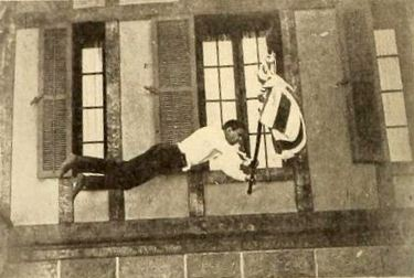 Still from the American comedy film His Majesty, the American (1919) with Douglas Fairbanks, on page 1440 of the August 16, 1919 Motion Picture News.